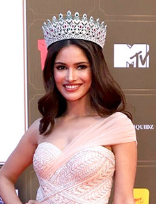 Miss Universe India 2019, Vartika Singh snapped at the red carpet of Miss Diva 2020 grand finale event on 22 February 2020.